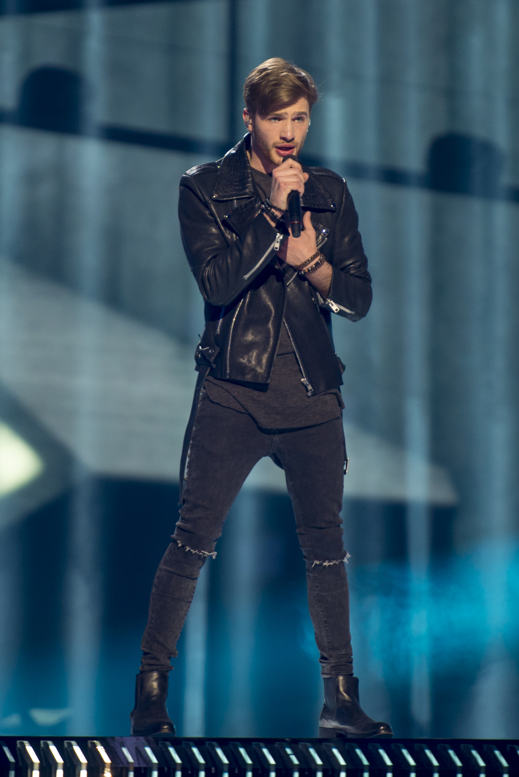 Justs representing Latvia with the song "Heartbeat" during a rehearsal before the second semi final of the Eurovision Song Contest 2016 in Stockholm. (Help translate this text)